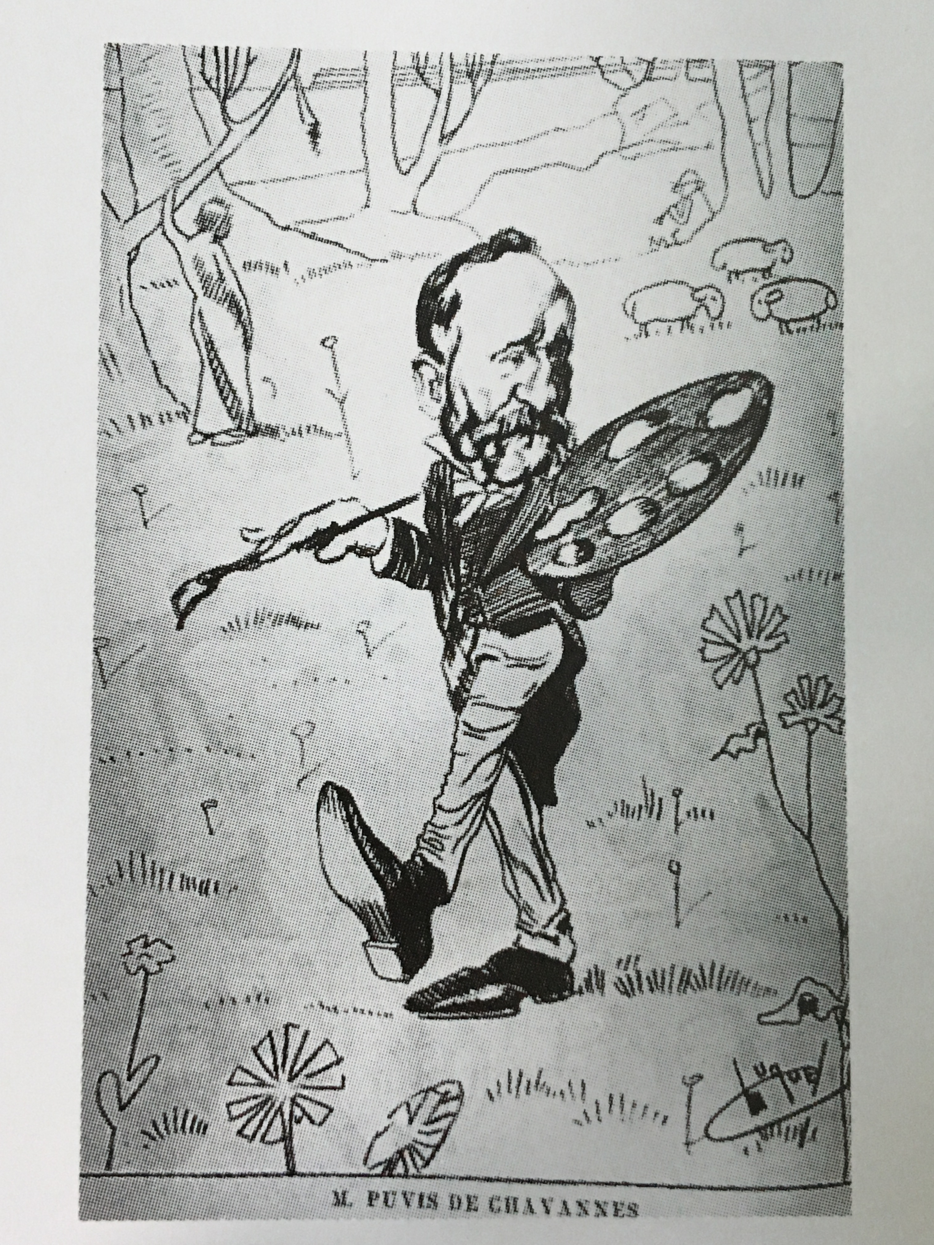 Caricature created in May 8, 1886 and features on page 156 of 'La Caricature'